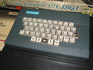 Soviet computer SYMBOL